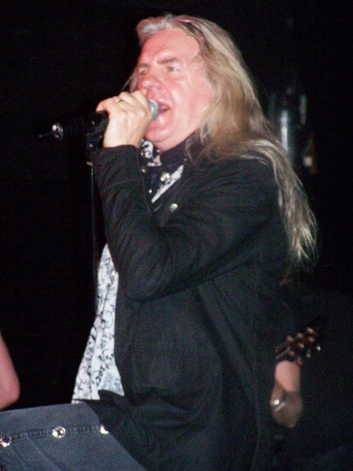 Biff Byford on stage in Sydney, 2008